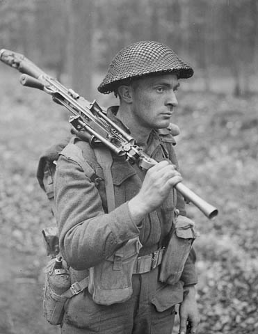 Private H.E. Goddard, of The Perth Regiment, carrying a Bren gun as he advances through a forest north of Arnhem with the 5th Canadian Armoured Division